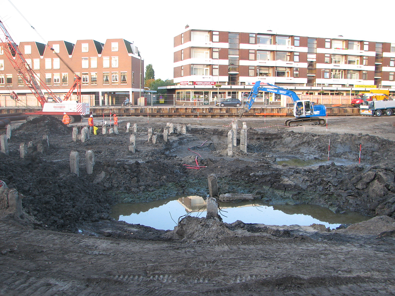 Archeological excavation of Fossa Corbulonis on Damplein in Leidschendam, The Netherlands